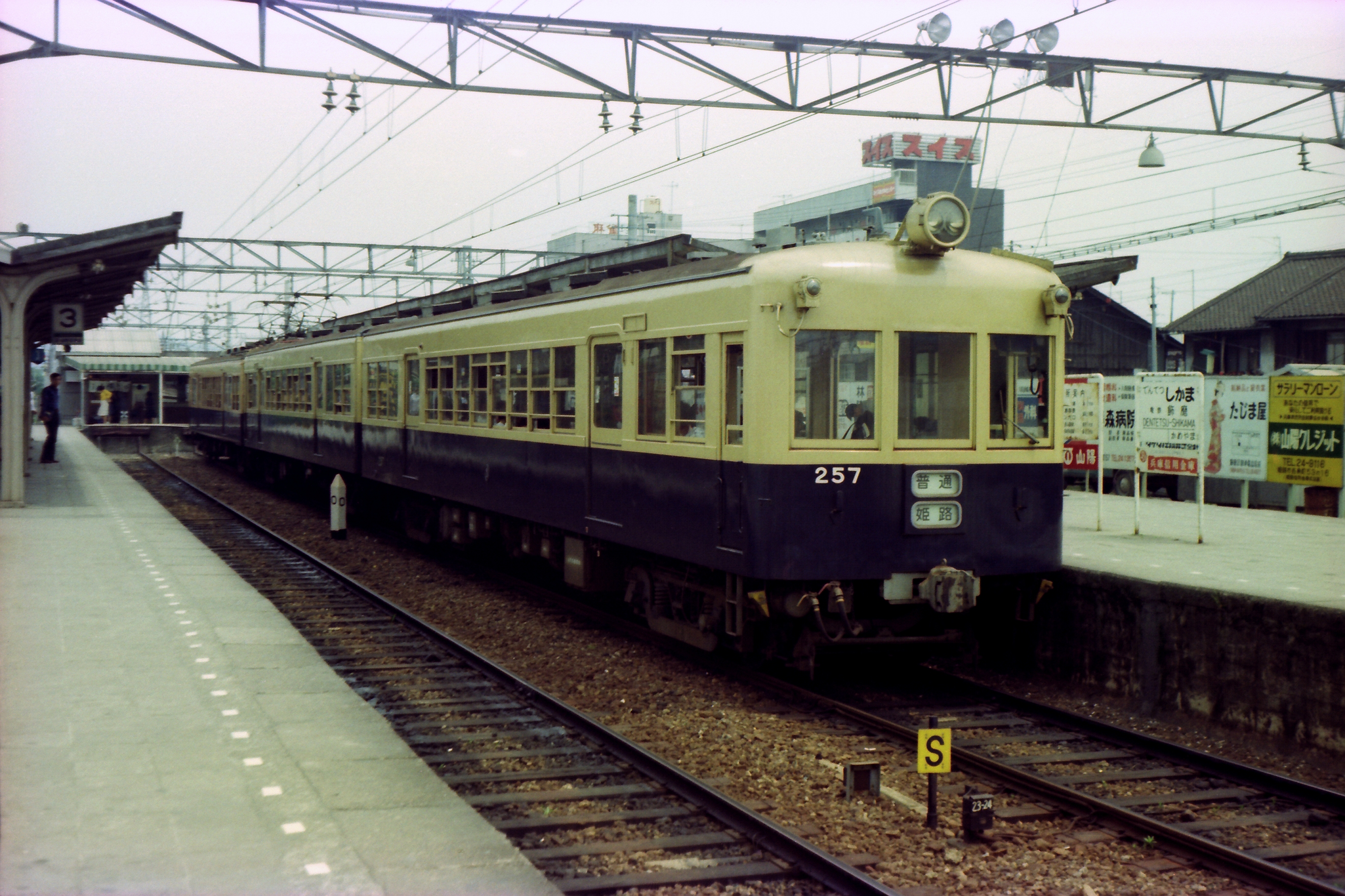 Sanyo Electric Railway 257 made in 1954. This is my father's shot. I scanned the film faded ;) Minolta Uniomat with Rokkor 45mm F2.8 / Fujicolor / Canon CanoScan 5600F / Gimp 2.8.2 / Sigma Photo Pro 5.5.1